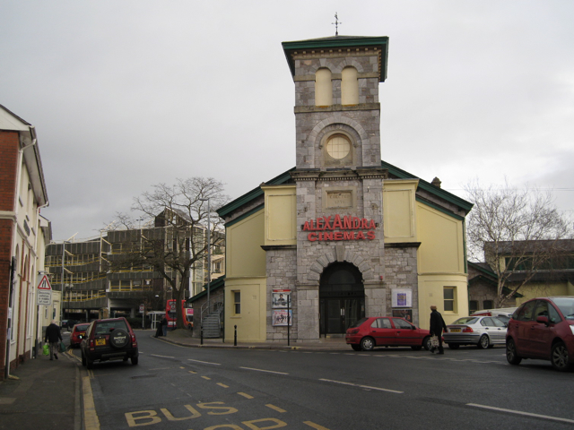 Alexandra Cinemas, Market Street, Newton Abbot With Sherborne Road multi-storey car park beyond.